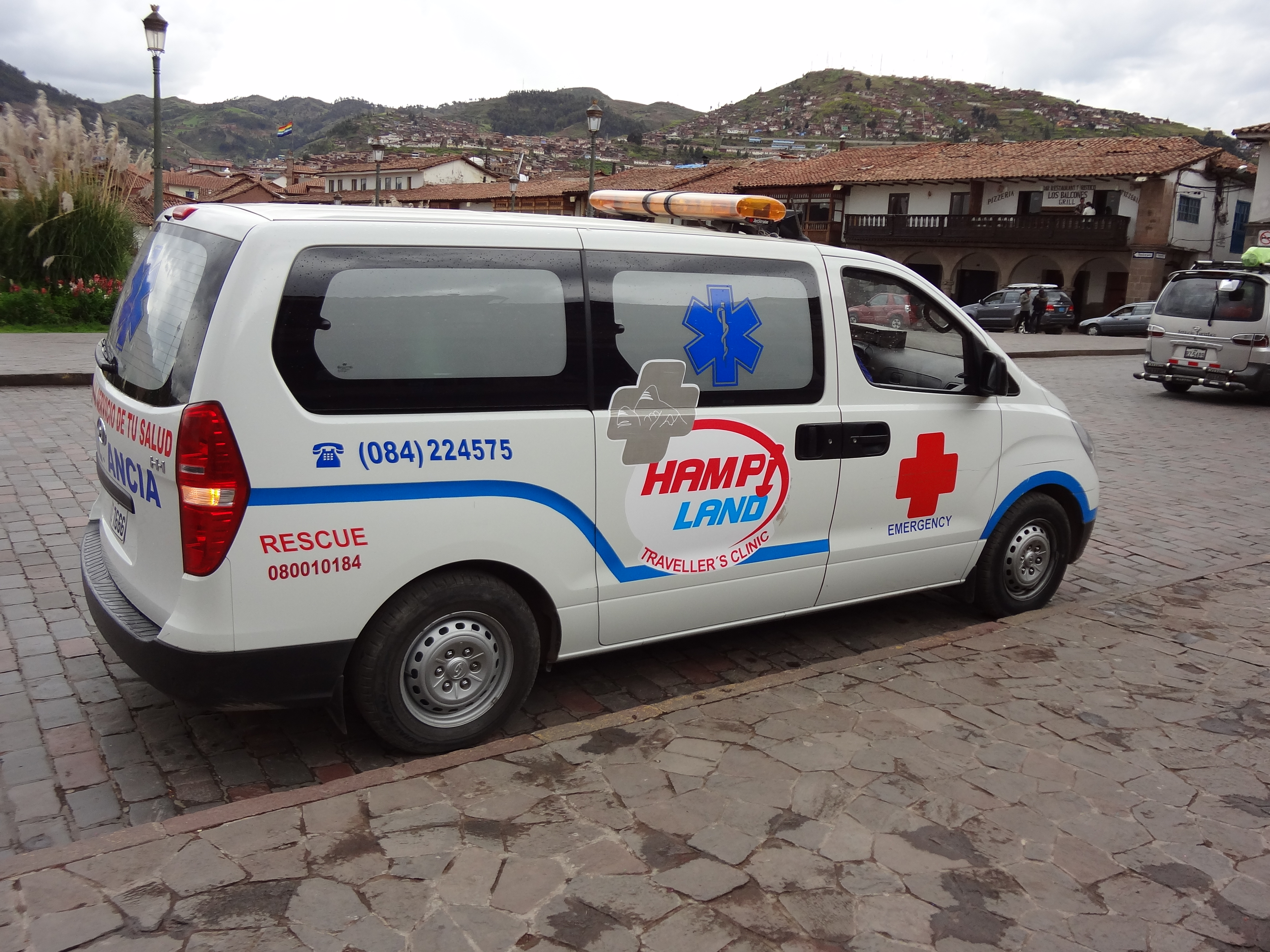 Ambulance from Hampi Land in Cusco/Cusco/Cusco, Peru - Plaza de Armas.